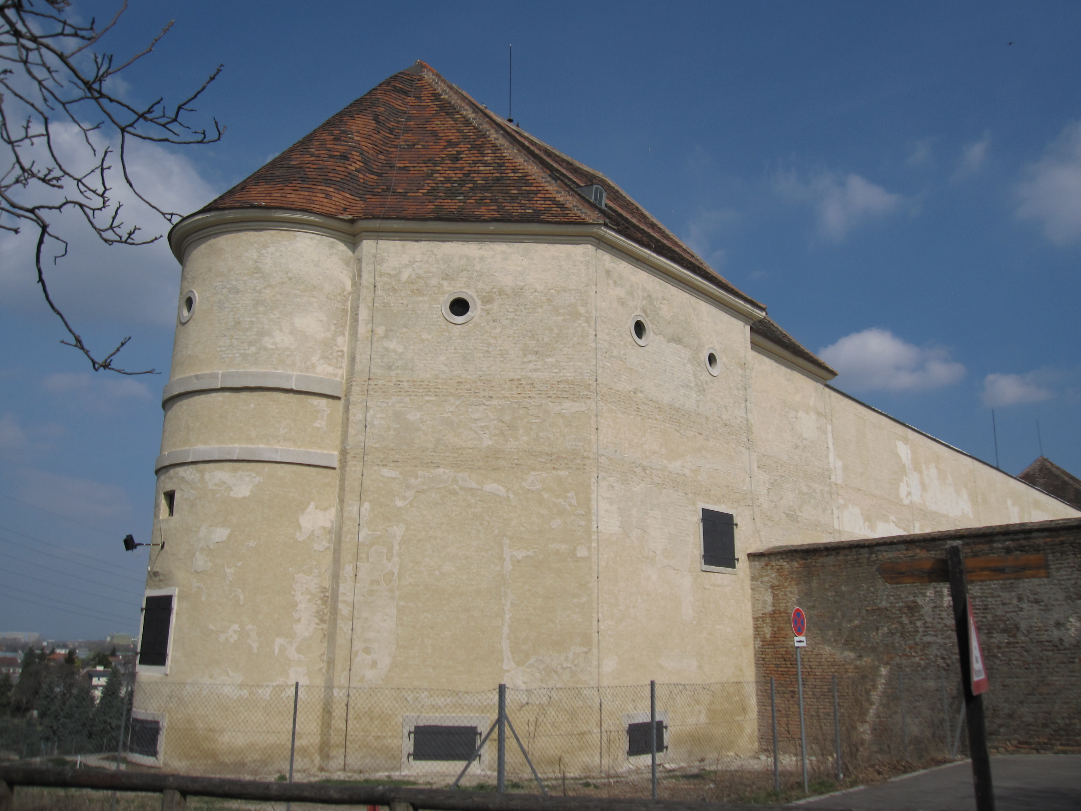 Neugebäude Palace in Vienna.